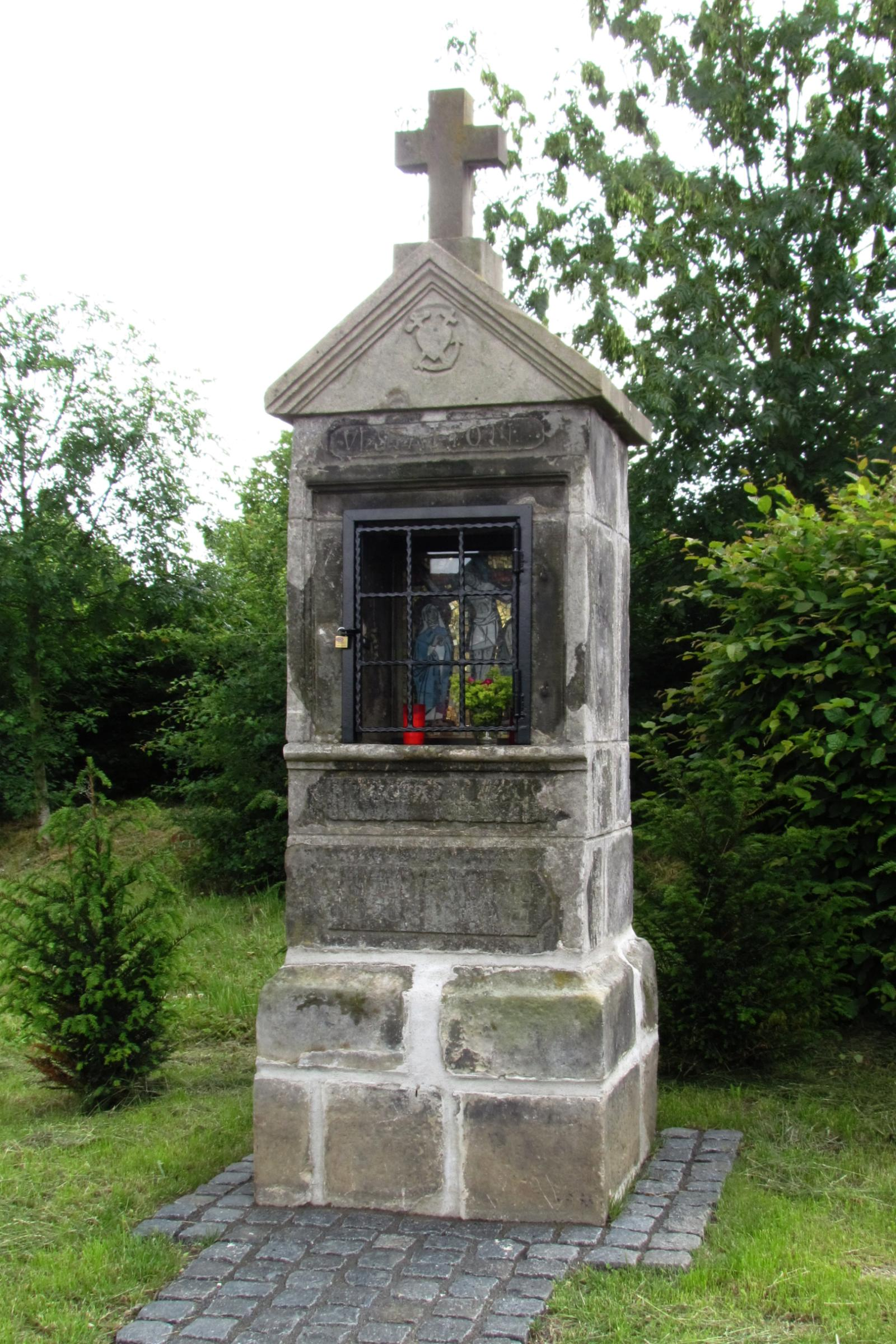 This is a photograph of an architectural monument.It is on the list of cultural monuments of Korschenbroich